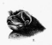 The brown mastiff bat (Promops nasutus, formerly Molossus nasutus)